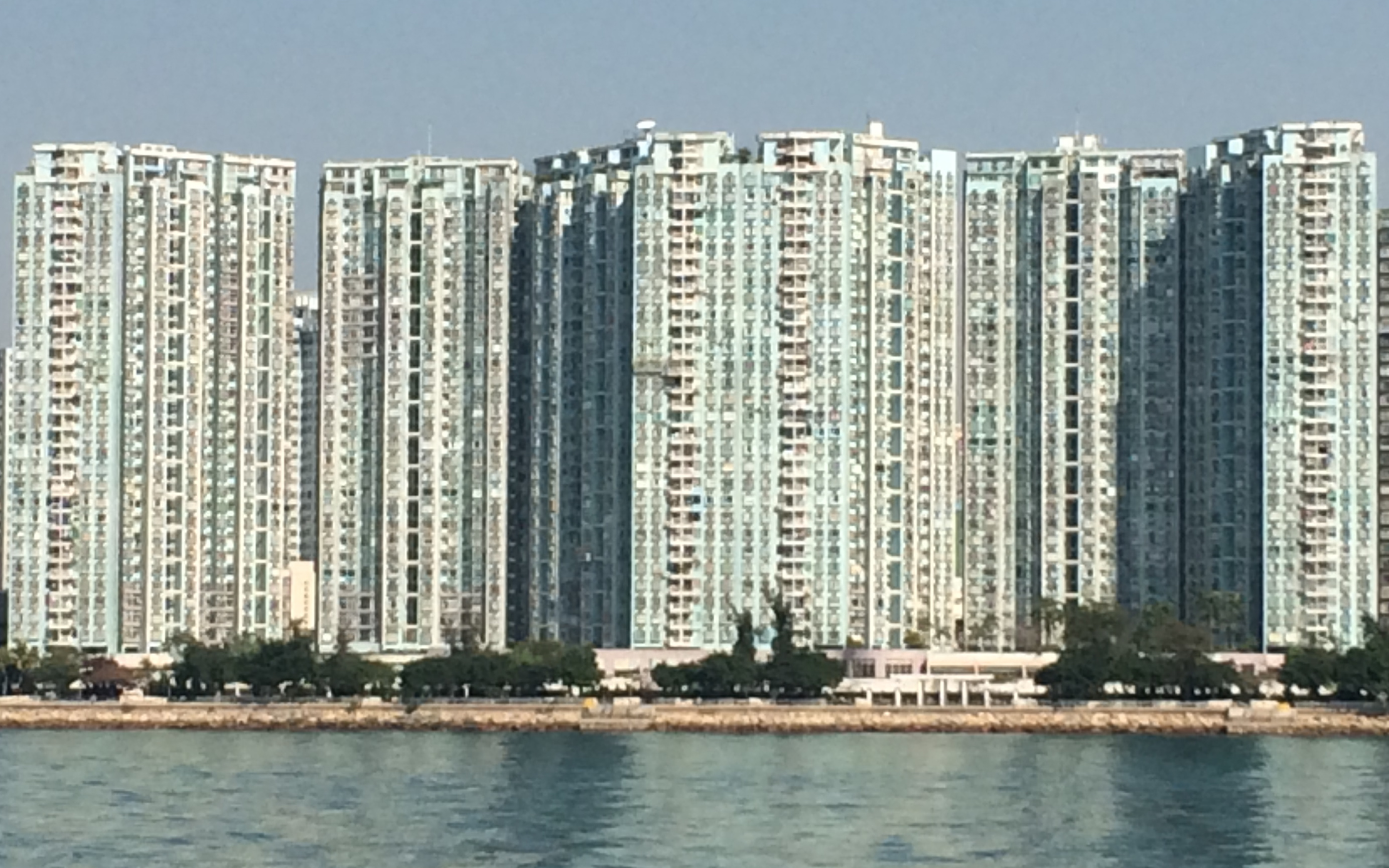 Miami Beach Towers residential estate as viewed from Castle Peak Bay.